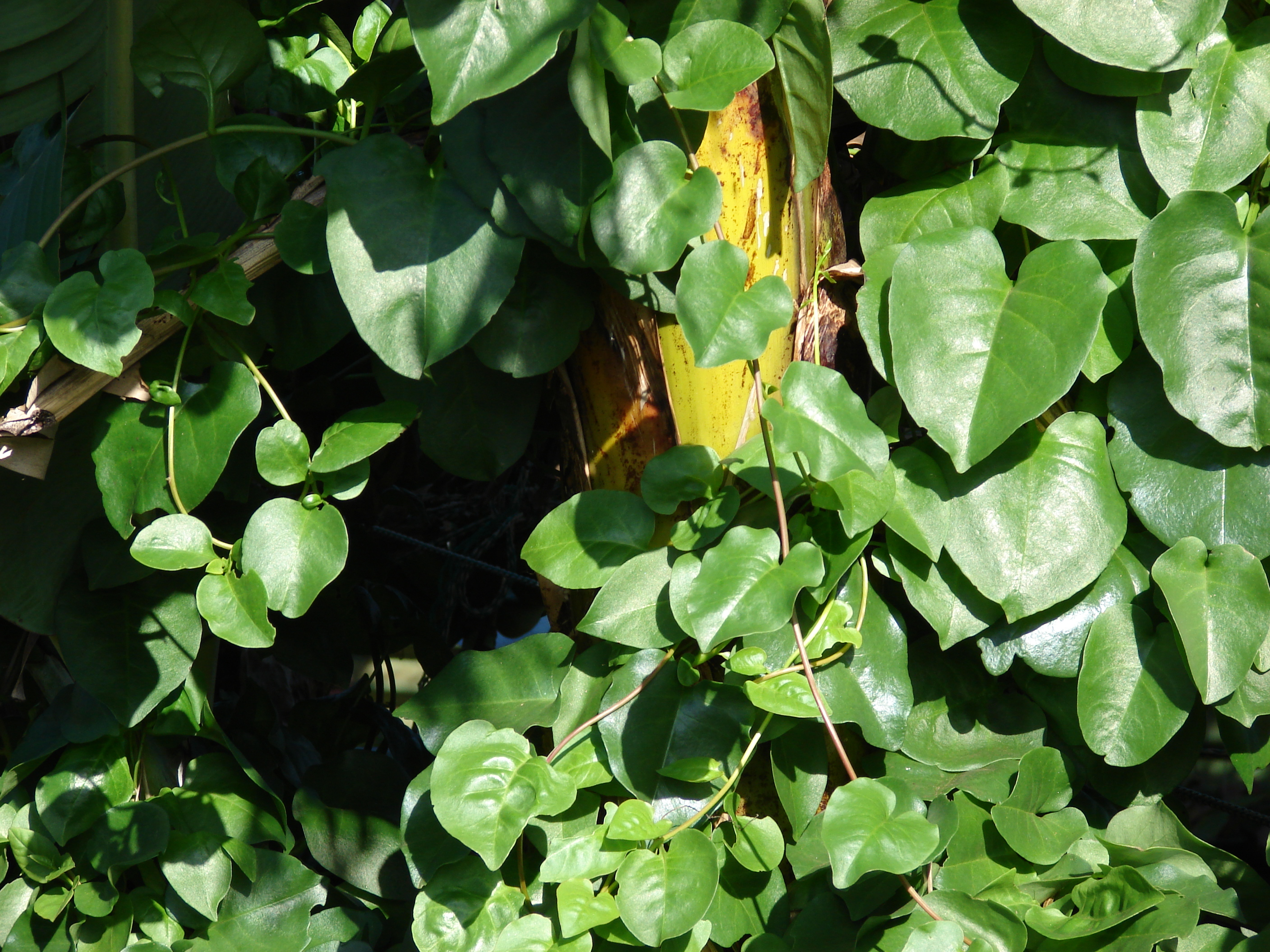 Anredera cordifolia (leaves). Location: Lanai, Lanai City